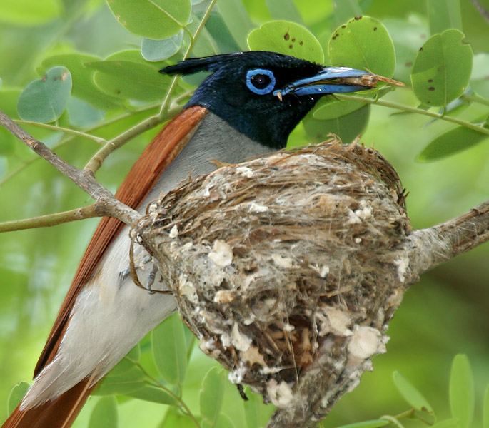 Asian Paradise-flycatcher or Common Paradise-flycatcher Terpsiphone paradisi at Ananthagiri Hills, in Rangareddy district of Andhra Pradesh, India.